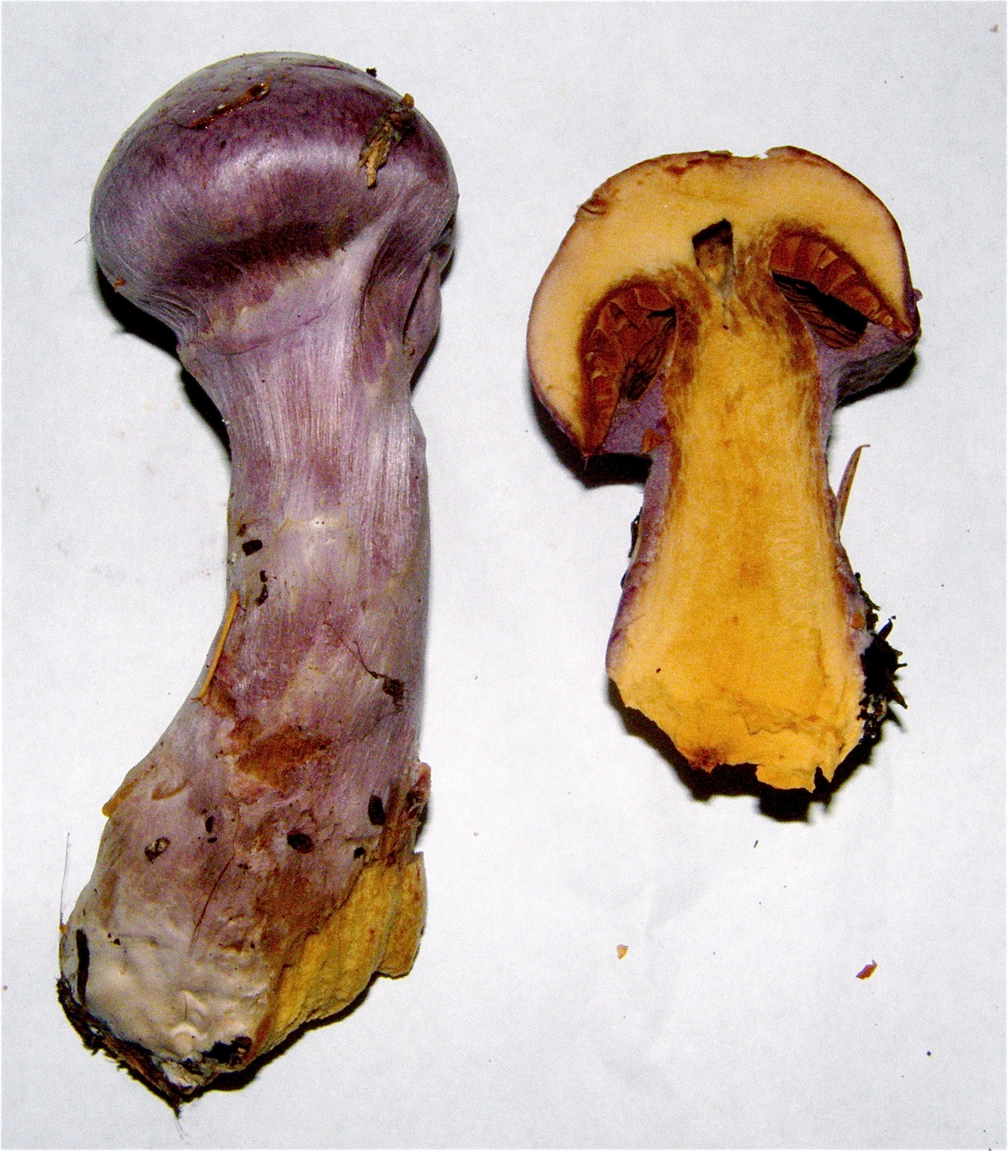 Cortinarius traganus (Fr.) Fr. Image location: Willamette National Forest, Lane Co., Oregon, USA Used references: Trudell & Ammirati, Mushrooms of the Pacific Northwest, Arora, Mushrooms Demystified (2nd ed.) For more information about this, see the observation page at Mushroom Observer.